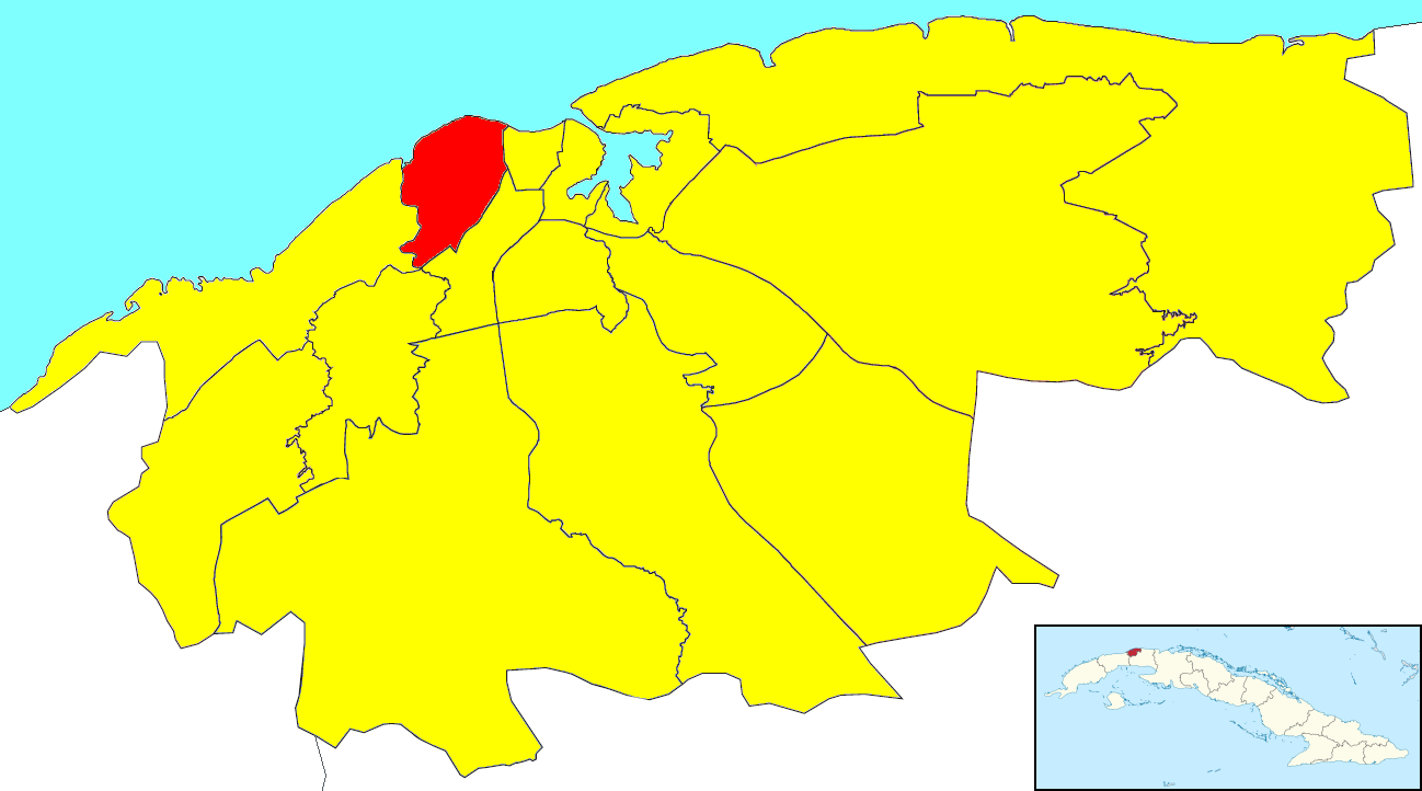 A map of the municipality of Plaza de la Revolución (shown in red) within the city of Havana (yellow). The little Cuban map in the corner shows Havana (dark red) within the island.